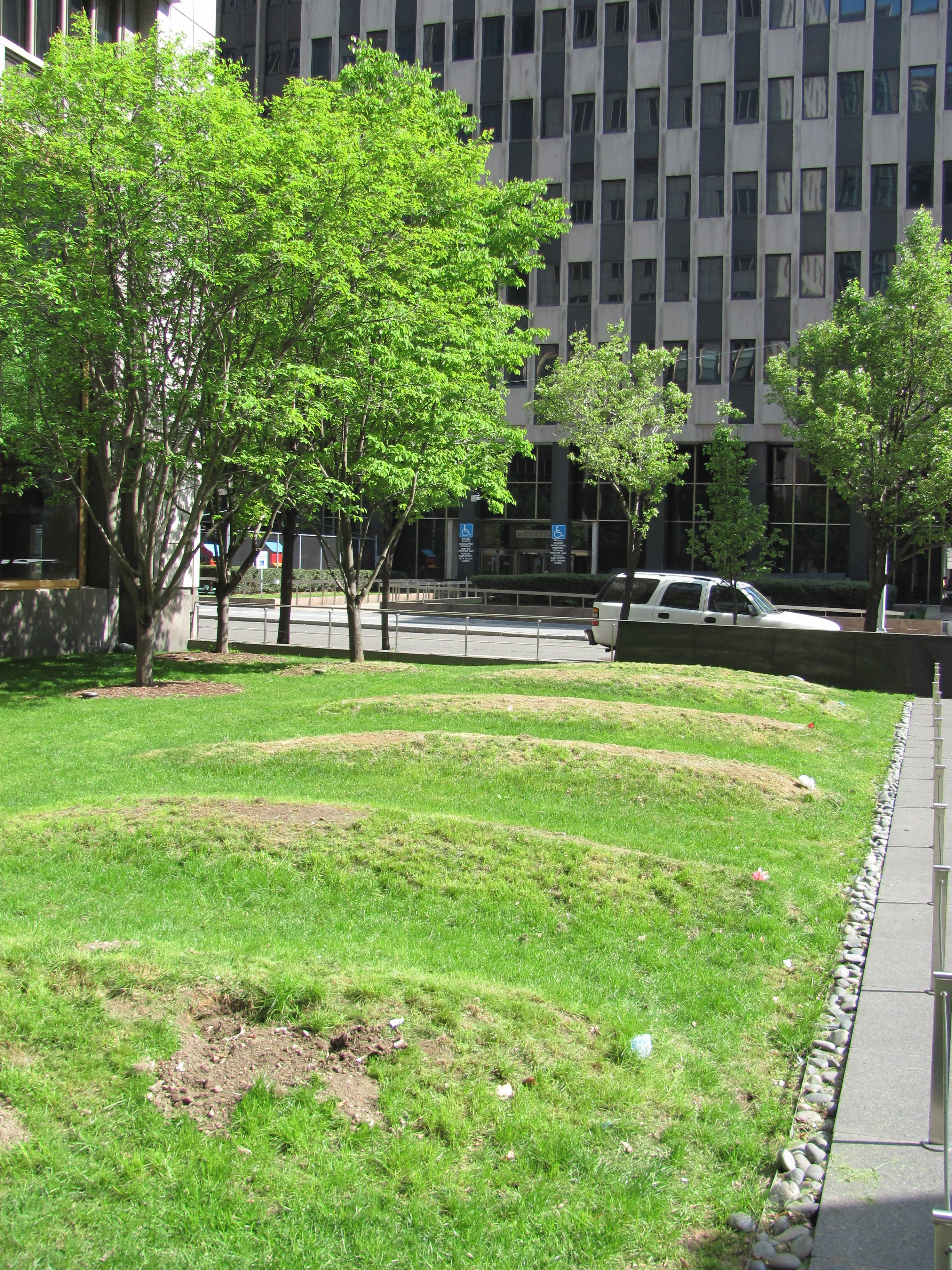 African Burial Ground National Monument, New York City, secondary burials